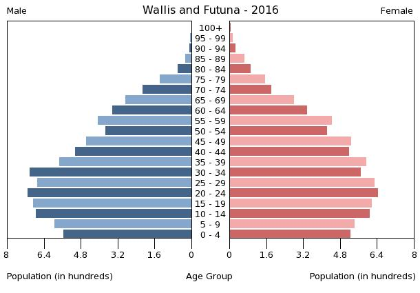 The population pyramid of Wallis and Futuna illustrates the age and sex structure of population and may provide insights about political and social stability, as well as economic development. The population is distributed along the horizontal axis, with males shown on the left and females on the right. The male and female populations are broken down into 5-year age groups represented as horizontal bars along the vertical axis, with the youngest age groups at the bottom and the oldest at the top. The shape of the population pyramid gradually evolves over time based on fertility, mortality, and international migration trends.